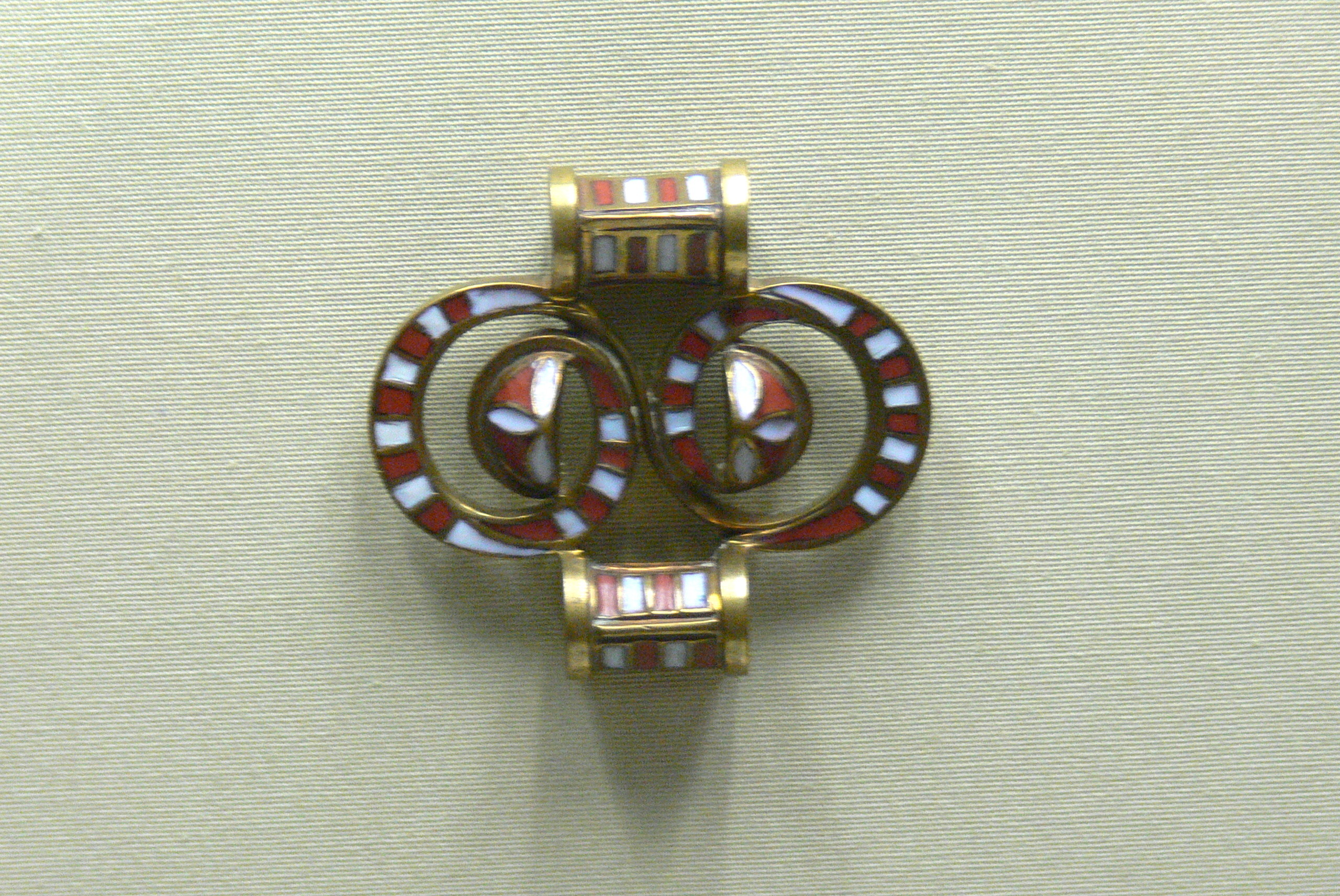 National Museum of Wales ( Cardiff ). Ancient Roman jewellery ( 50-75 AD ) from the Seven-Sister-Hoard.